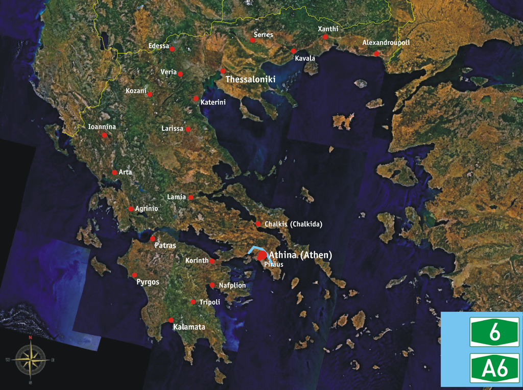 Course or track of Greek Motorway (avtokinetodromos) A6.